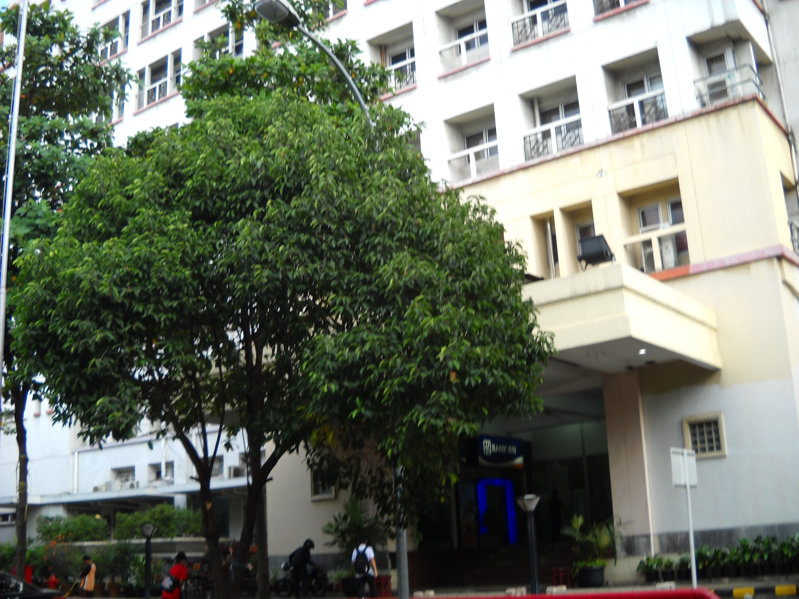 Tarumanagara University, Jakarta.